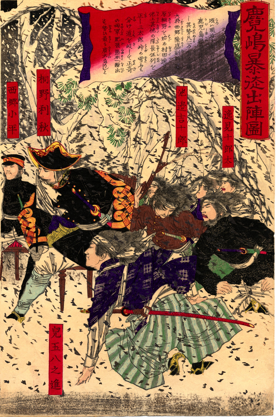 It is a part of the ukiyoe "鹿児島暴徒出陣図 "（an original print )